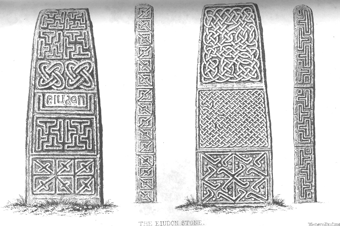 Eiudon Stone, Glansanan, Llanfynydd, Llandeilo, Arch Camb Vol 2 1872 pg 343